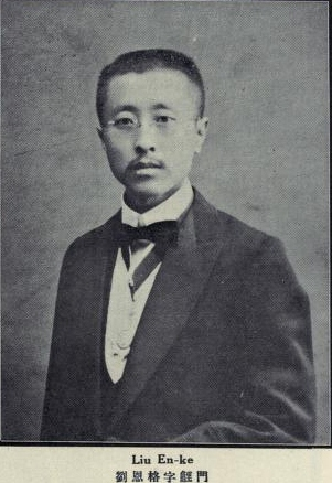 Liu Enge, Limen (born 1888)